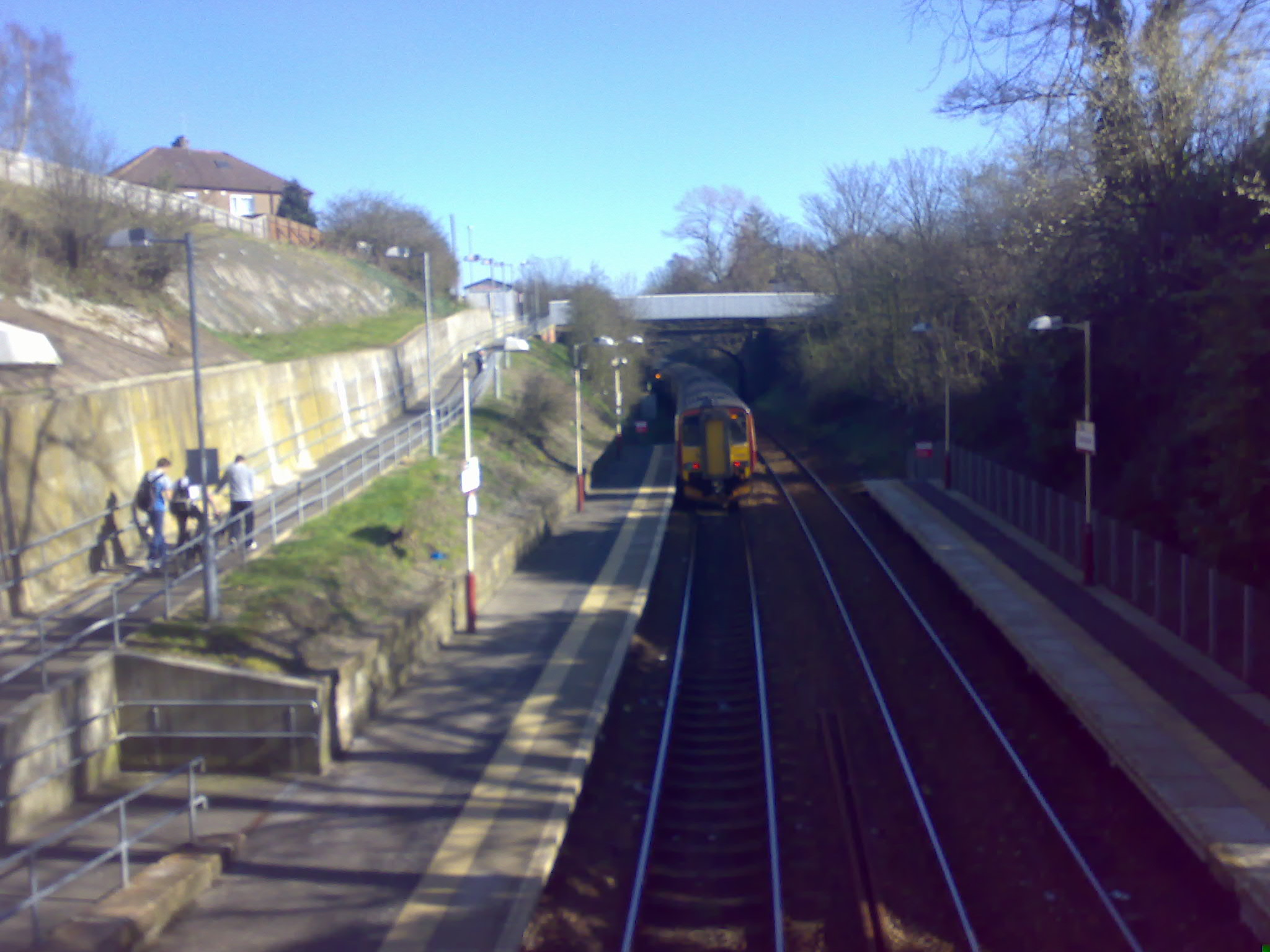 Clarkston Railway Station, photographed from the overhead walkway, by Mark Whiteside on April 04 2007.